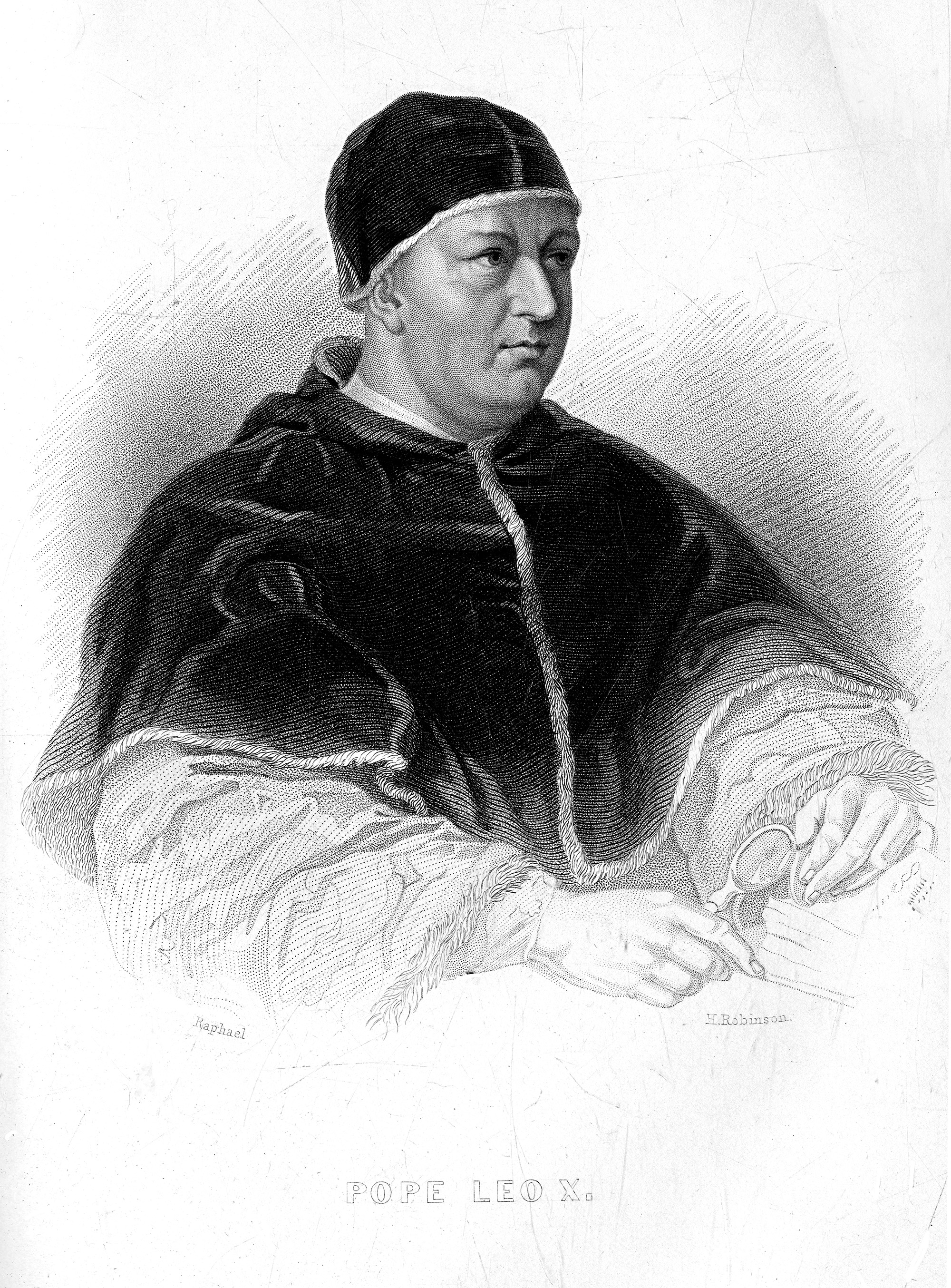 Portrait of Pope Leo X